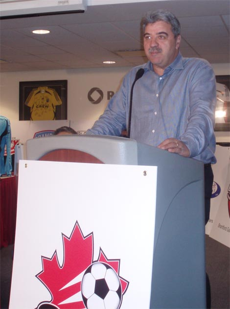 Former Canadian national team player Bob Iarusci delivers a speech at the annual Canadian Soccer League preseason press conference in 2010.